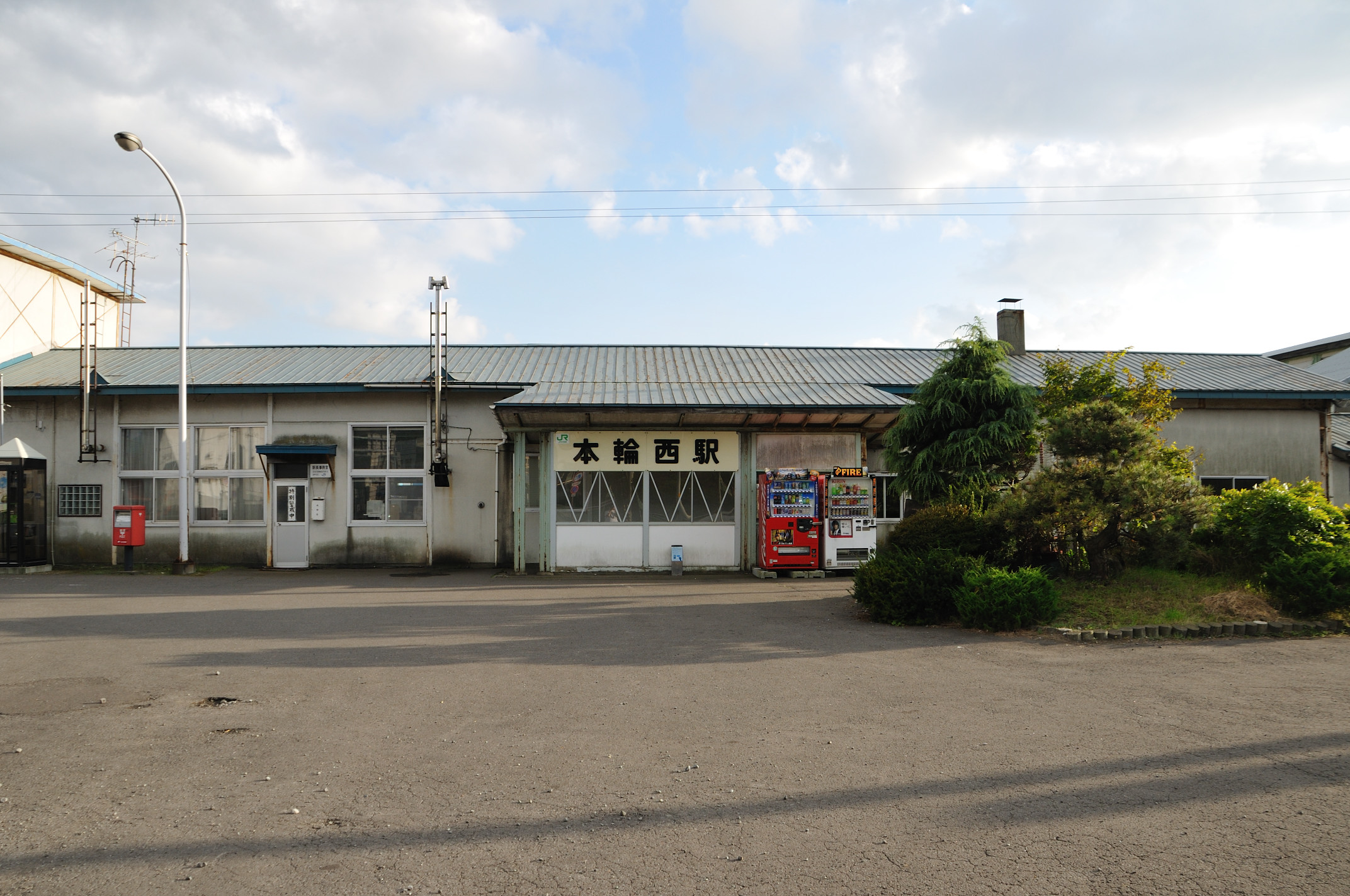 JR Hokkaido Motowanishi station, Muroran, Hokkaido, Japan